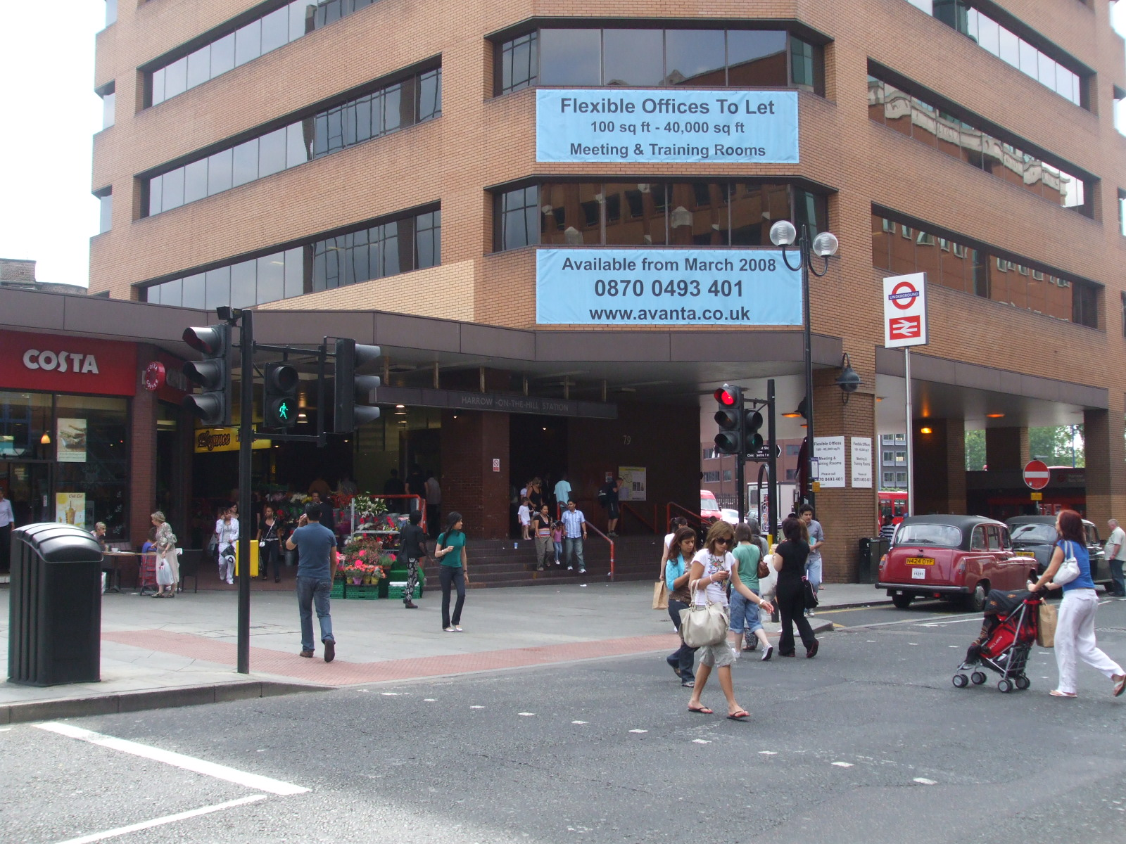 Harrow-on-the-Hill station entrance opposite the shopping centre in Harrow town centre